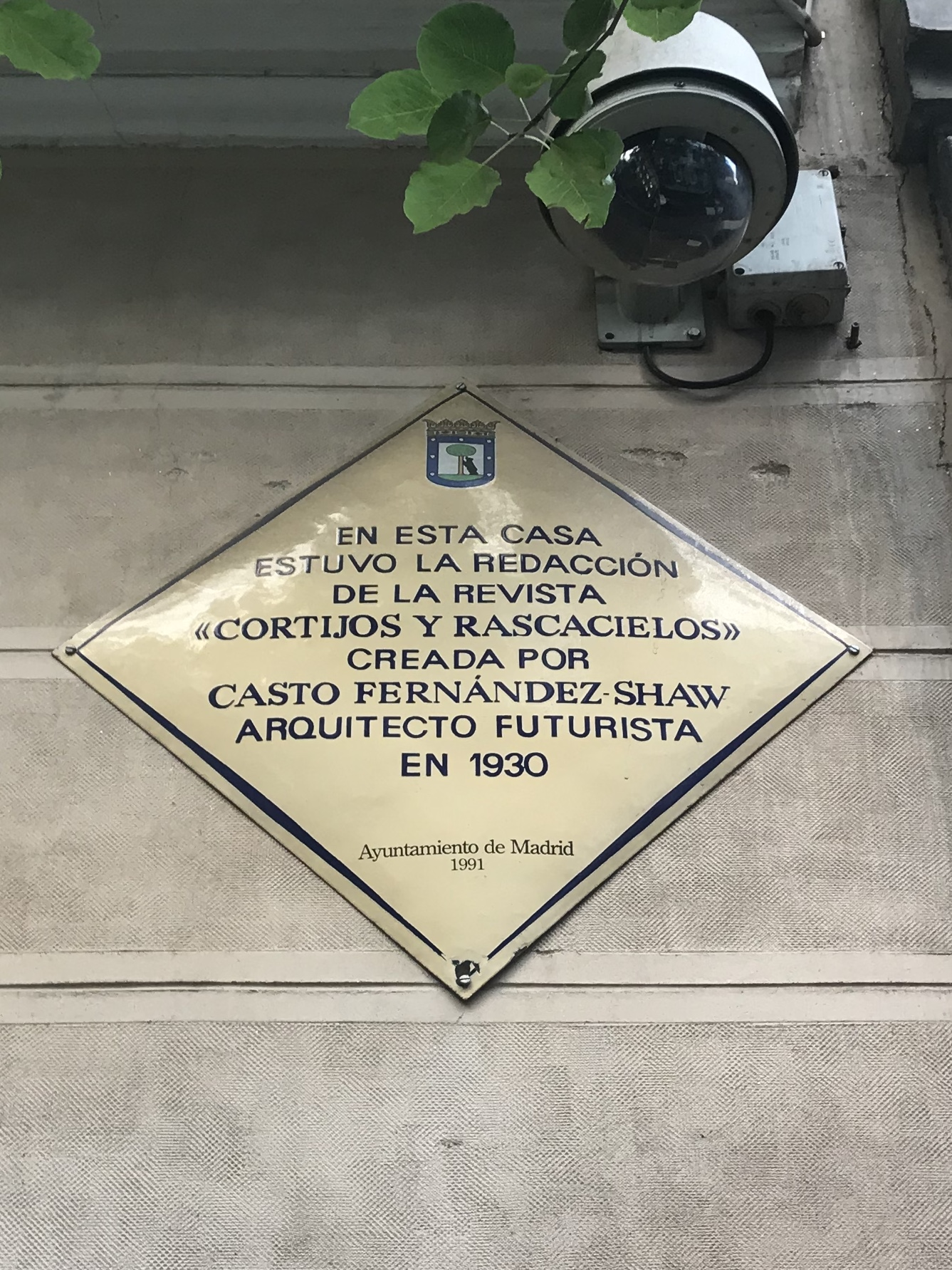 In this house was the edition of the magazine "Cortijos and Skyscraper" created by Casto Fernández-Shaw, futuristic architect, in 1930